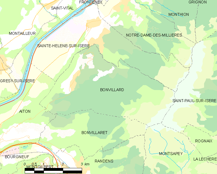 Map of French municipality